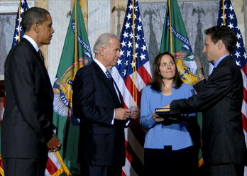 Following remarks by President Obama, Vice President Biden administered the oath of office to Timothy Geithner. Secretary Geithner returns to the Treasury Department, where he first worked about 20 years ago.